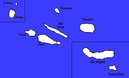 Map of Azores Islands, Portugal